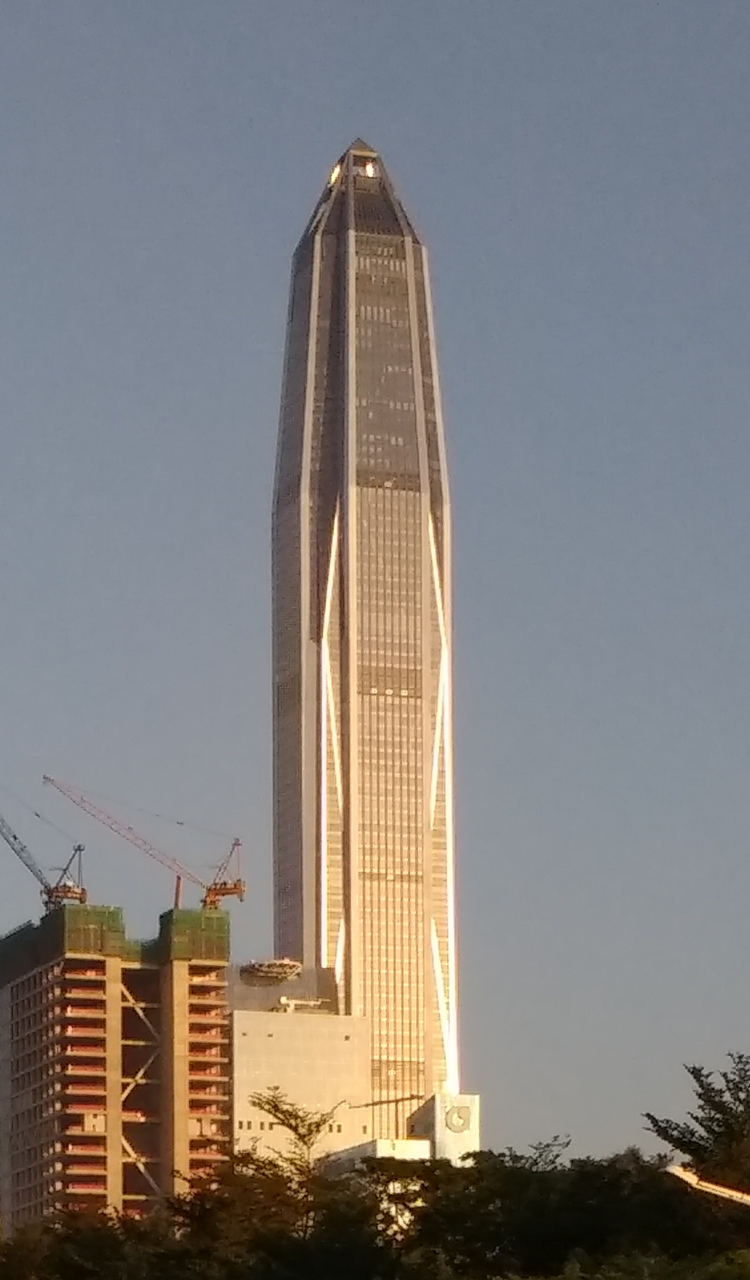 Ping An International Finance Center in Shenzhen, 2018-11-30.